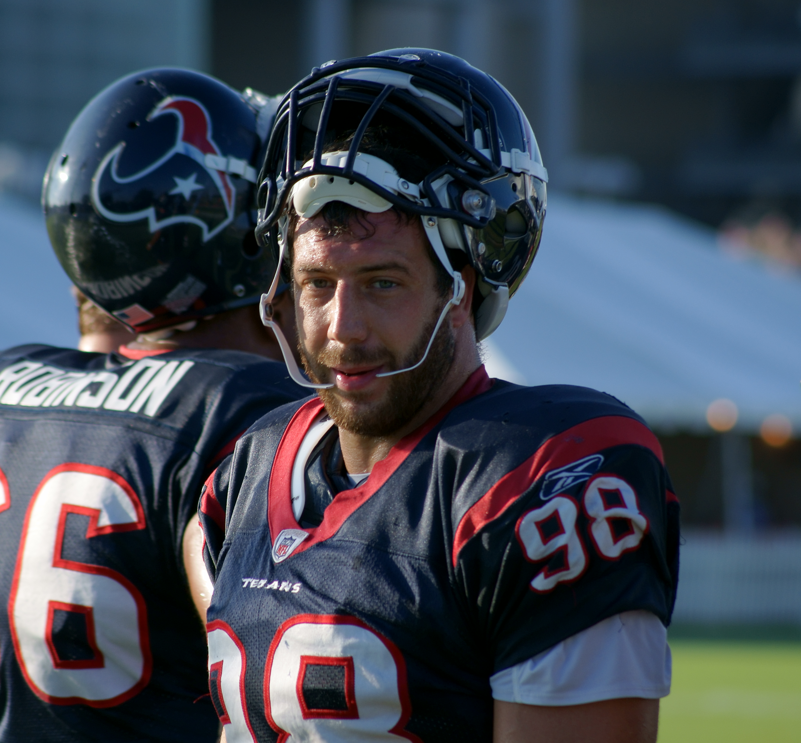 Connor Barwin of the Houston Texans (NFL)